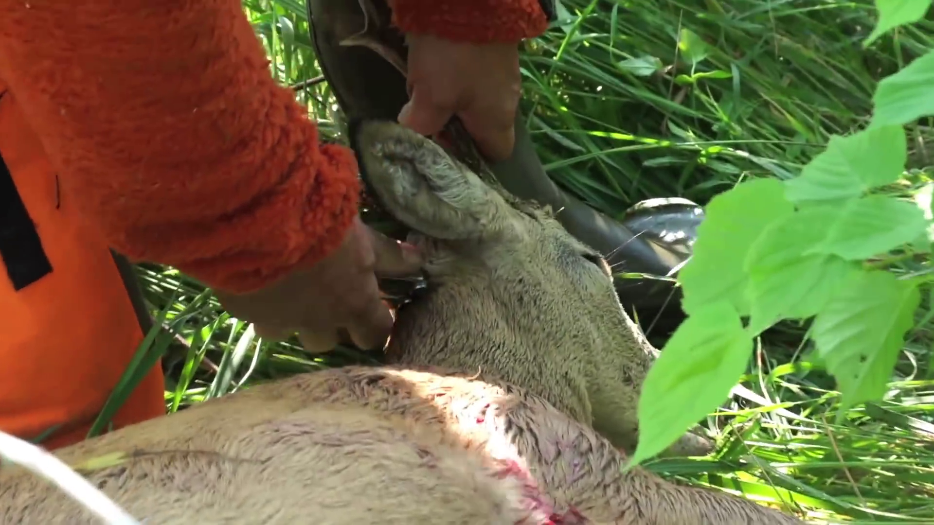 Specialized Danish hunter and dog handler of the "Schweiss Registret" (organization of hunters dedicated to tracking down dead or injured game animals) killing injured roe deer buck by a targeted thrust of his knife into its neck after tracking it down with his dog